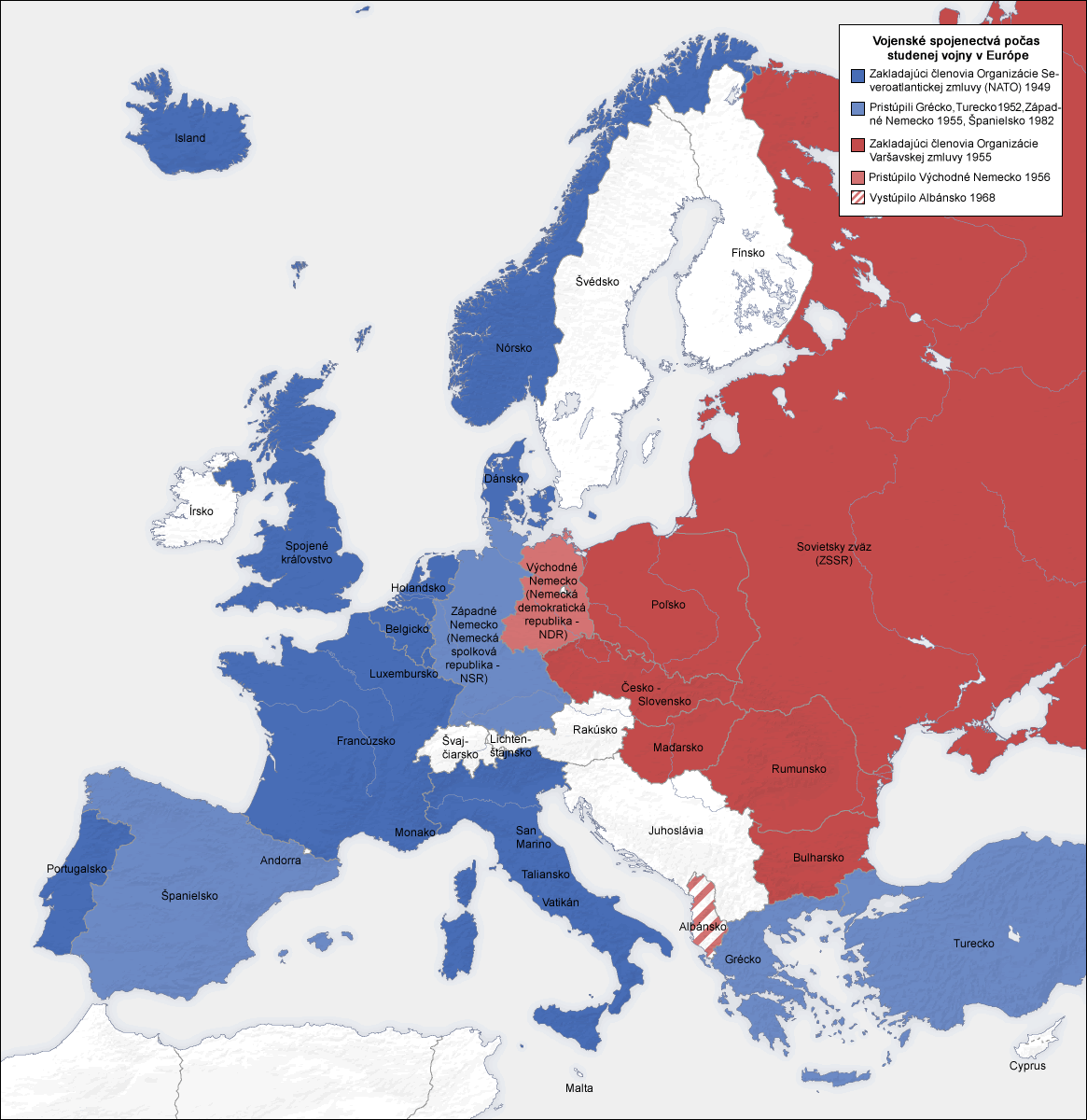 Cold war Europe military alliances map - Slovak translationSlovenčina: Vojenské spojenectvá počas studenej vojny v Európe